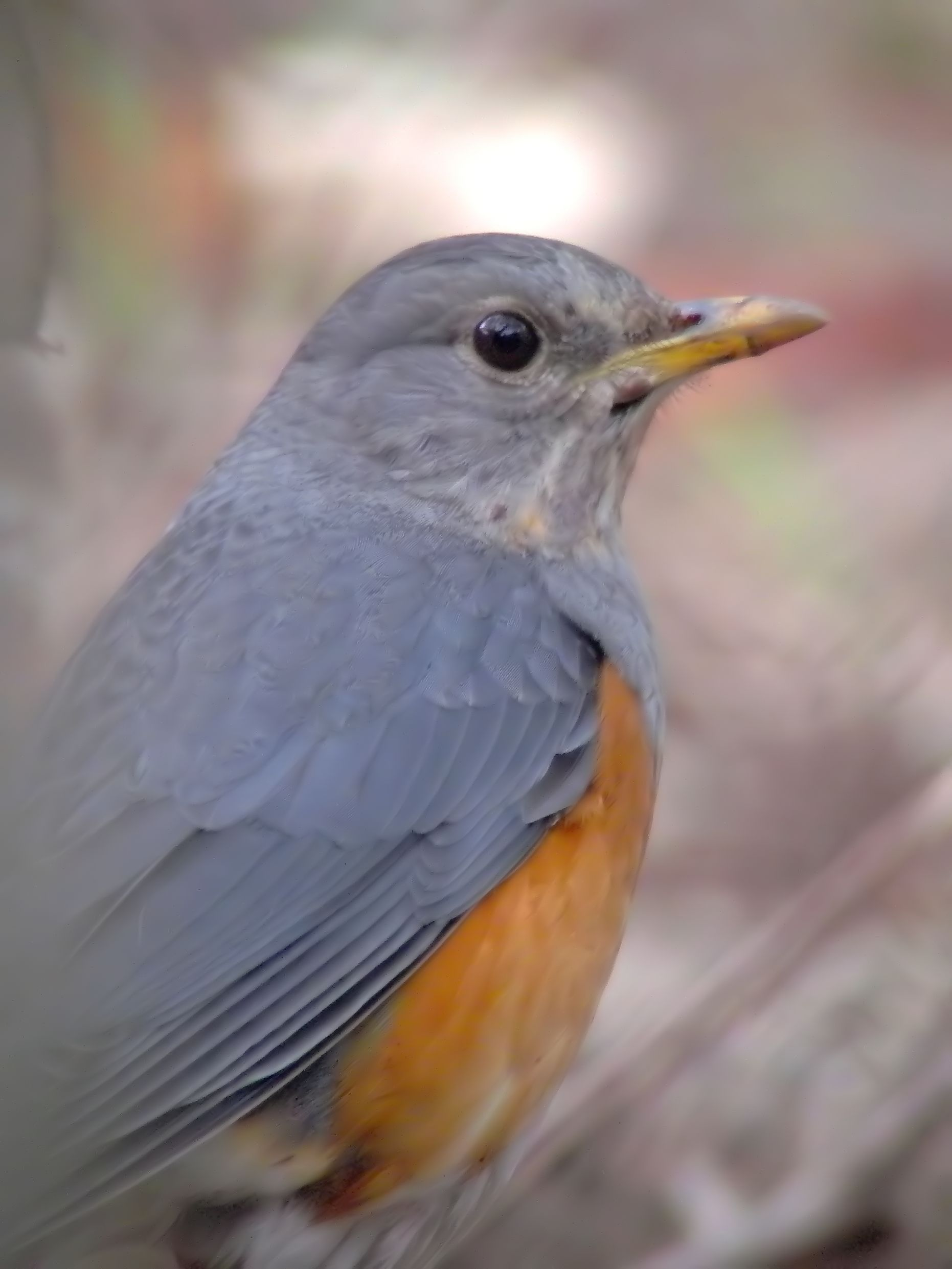 Saw near my home. Got videos of its digging and feeding as well.